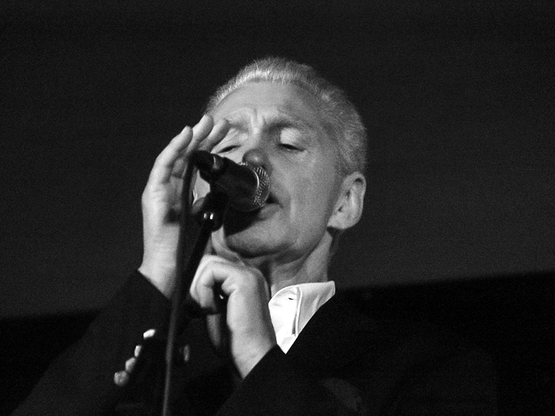 Georgie Fame in Denmark 2013